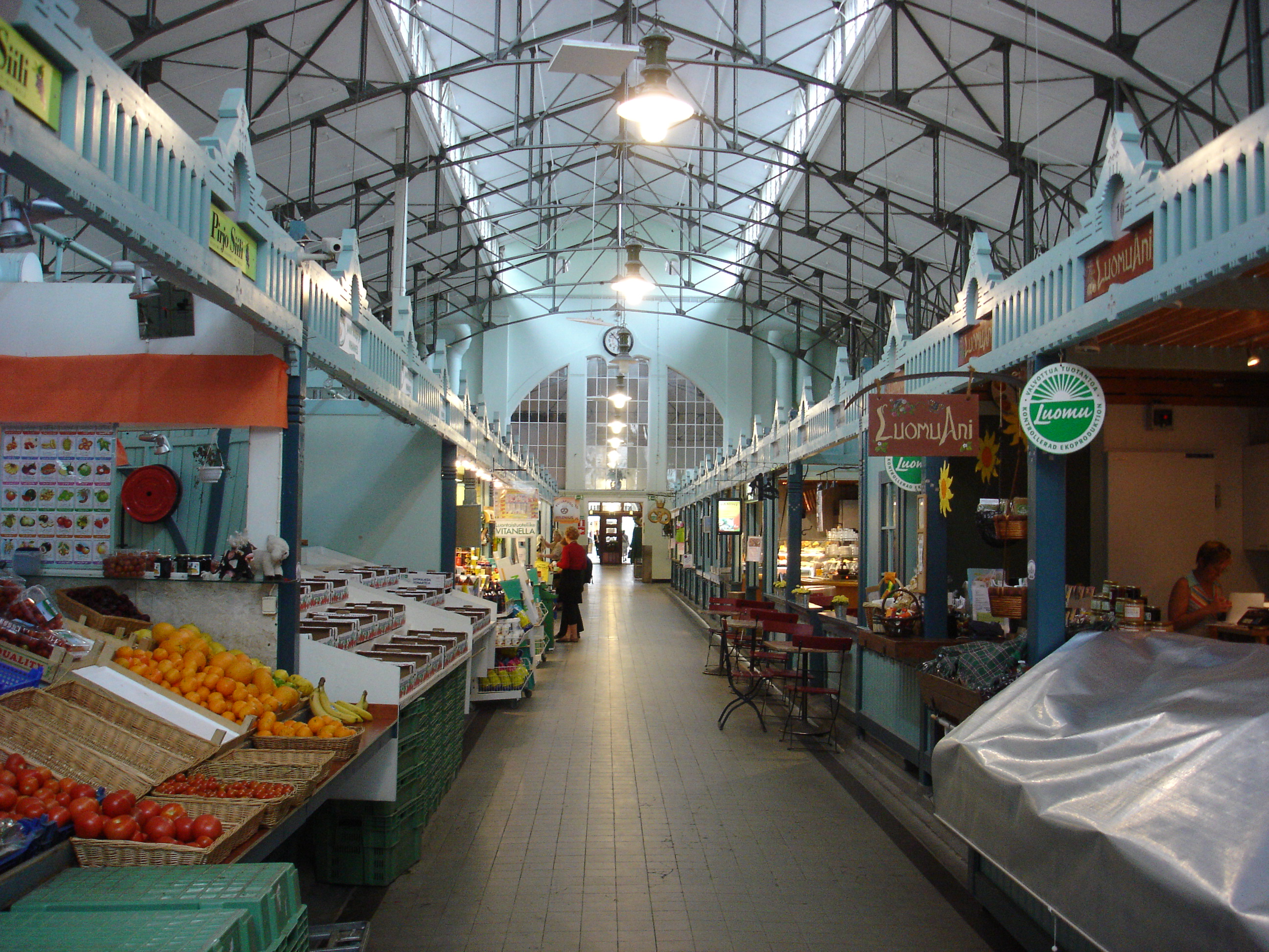 Tampere market hall, just before closing in Finland